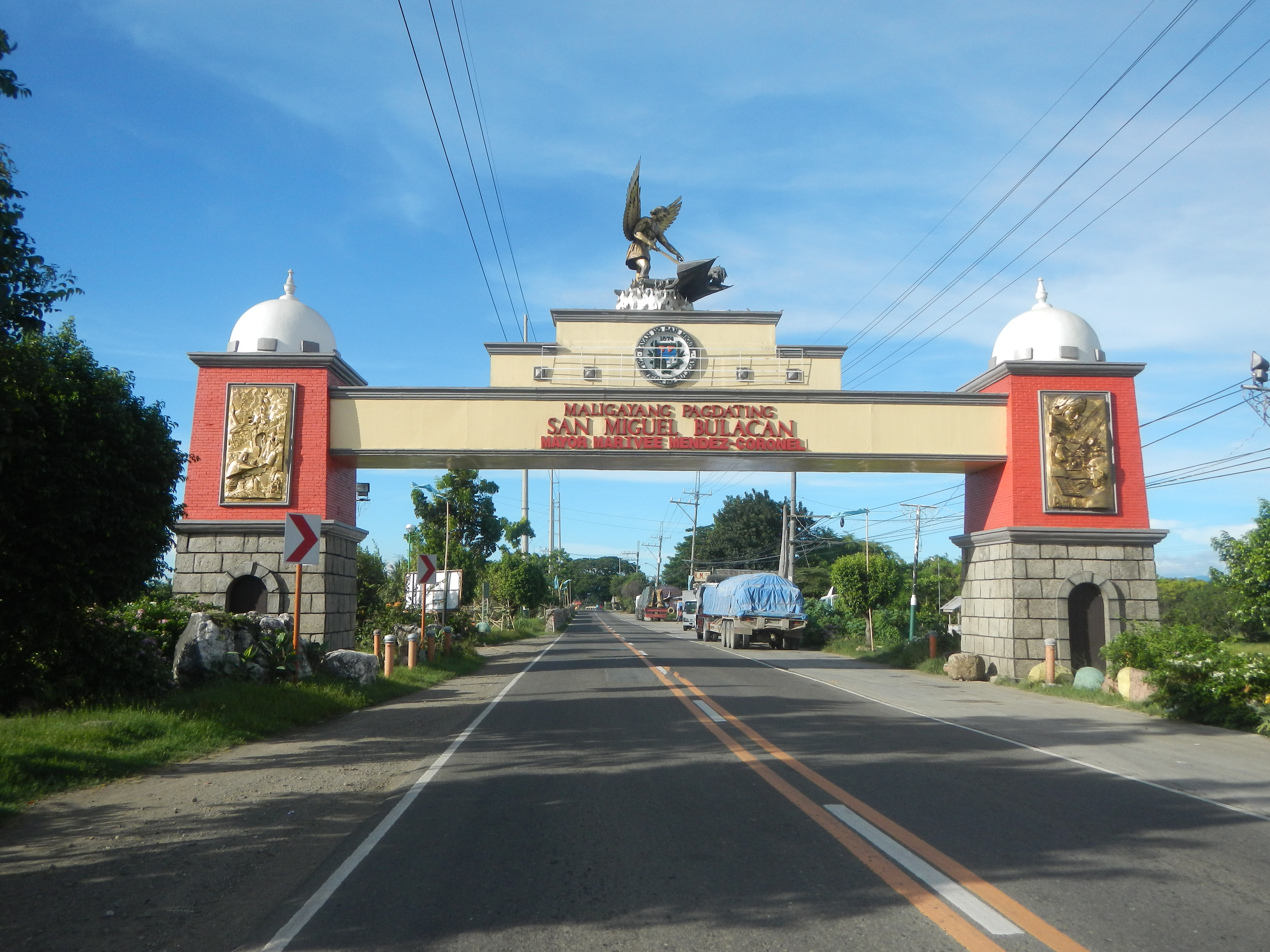 San Miguel-San Ildefonso, Bulacan Welcome arch-sign (Slope protection construction, Marugay Rugay Bridge 2, Anyatam & Salangan paddy fields-grasslands, Pan-Philippine Highway) Barangays Salangan 15°7'28"N 120°57'27"E Camias 15°9'28"N 120°58'24"E Bantog 15°12'43"N 120°56'36"E Pulong Duhat 15°13'16"N 120°57'59"E San Miguel, Bulacan and Barangay Anyatam 15°6'2"N 120°56'39"E San Ildefonso, Bulacan Bulacan Sunsets upon Mount Arayat from Maharlika Highway, Camias, San Miguel, Bulacan Mount Arayat (accessed along and from the Maharlika Highway (Cagayan Valley Road, San Miguel, Bulacan section) of Pan-Philippine Highway, also known as the Maharlika "Nobility/freeman" Highway or Asian Highway 26, Cagayan Valley Road Note: Judge Florentino Floro, the owner, to repeat, Donor Florentino Floro of all these photos hereby donate gratuitously, freely and unconditionally all these photos to and for Wikimedia Commons, exclusively, for public use of the public domain, and again without any condition whatsoever).